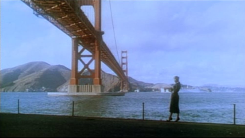 Screenshot from the original 1958 theatrical trailer for the film Vertigo Frame taken from MPEG2. Note: This version of the original 1958 theatrical trailer is of significantly lower quality than the 1996 restoration theatrical trailer.